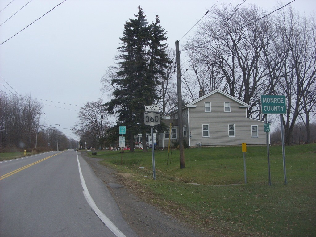 First reassurance marker on New York State Route 360 eastbound in Hamlin. The western terminus of NY 360 is at an intersection with New York State Route 272 on the Orleans-Monroe County line; thus, a "Monroe County" sign is also present here.